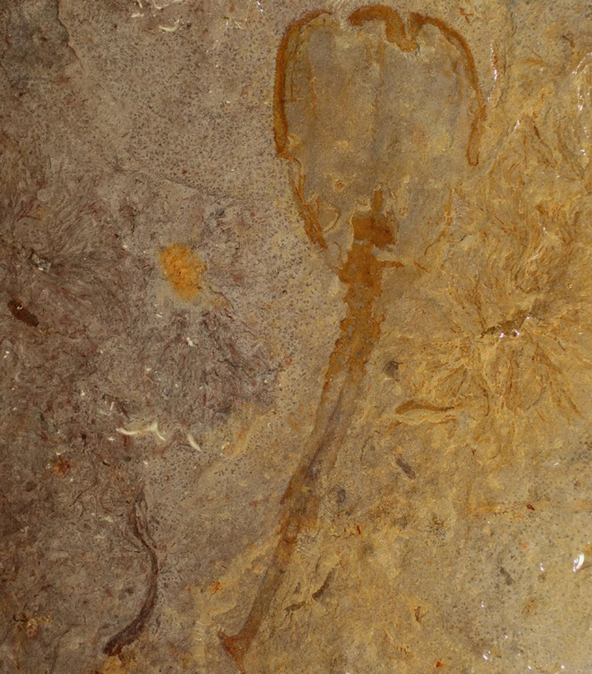 The only fossilized specimen of a species previously unknown to science -- an "obscure" stalked filter feeder. It has just been detailed for the first time in a paper appearing in the Journal of Paleontology. "This was the earliest specimen of a stalked filter feeder that has been found in North America," said lead author Julien Kimmig, collections manager for Invertebrate Paleontology at the Biodiversity Institute. "This animal lived in soft sediment and anchored into the sediment. The upper part of the tulip was the organism itself. It had a stem attached to the ground and an upper part, called the calyx, that had everything from the digestive tract to the feeding mechanism. It was fairly primitive and weird." More